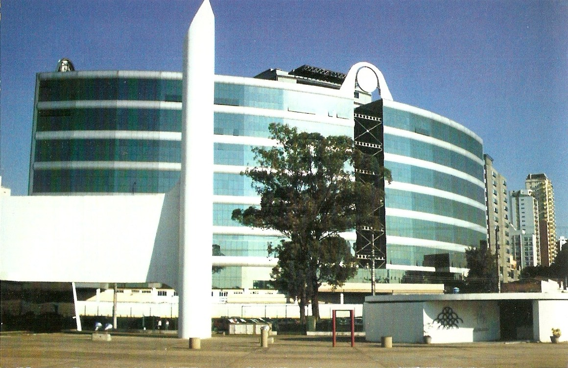 Universidade Nove de Julho - São Paulo - Brasil